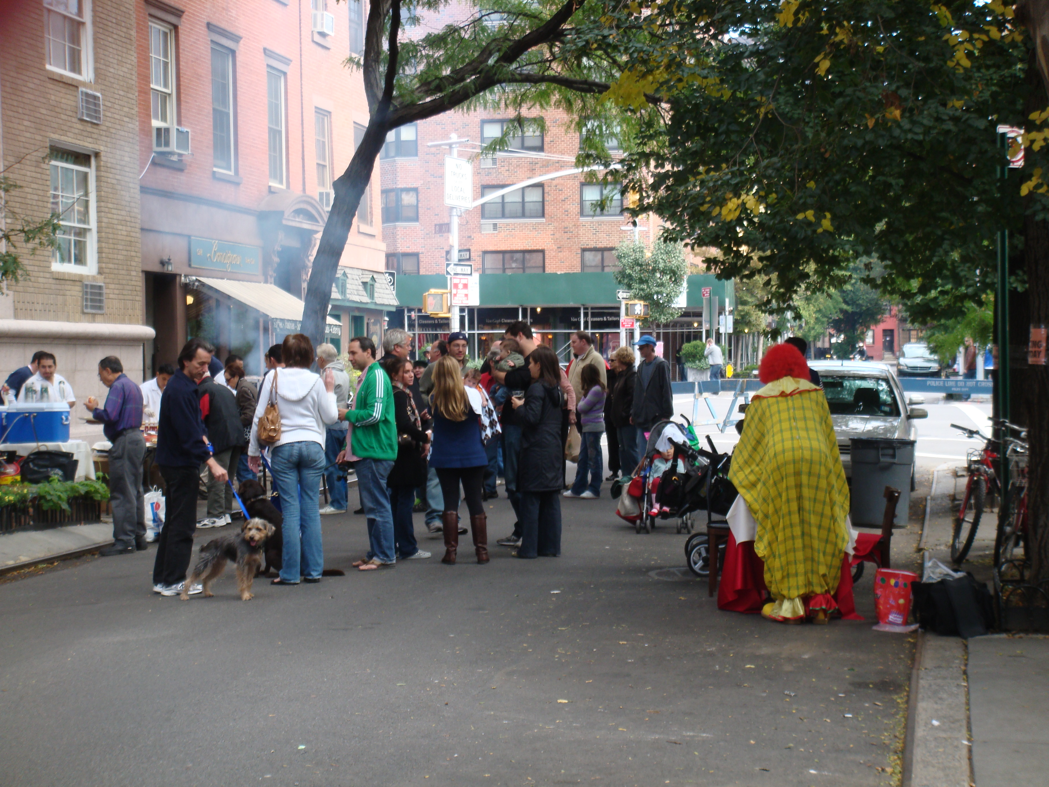 This photo is of Wikis Take Manhattan goal code R7, Block party.